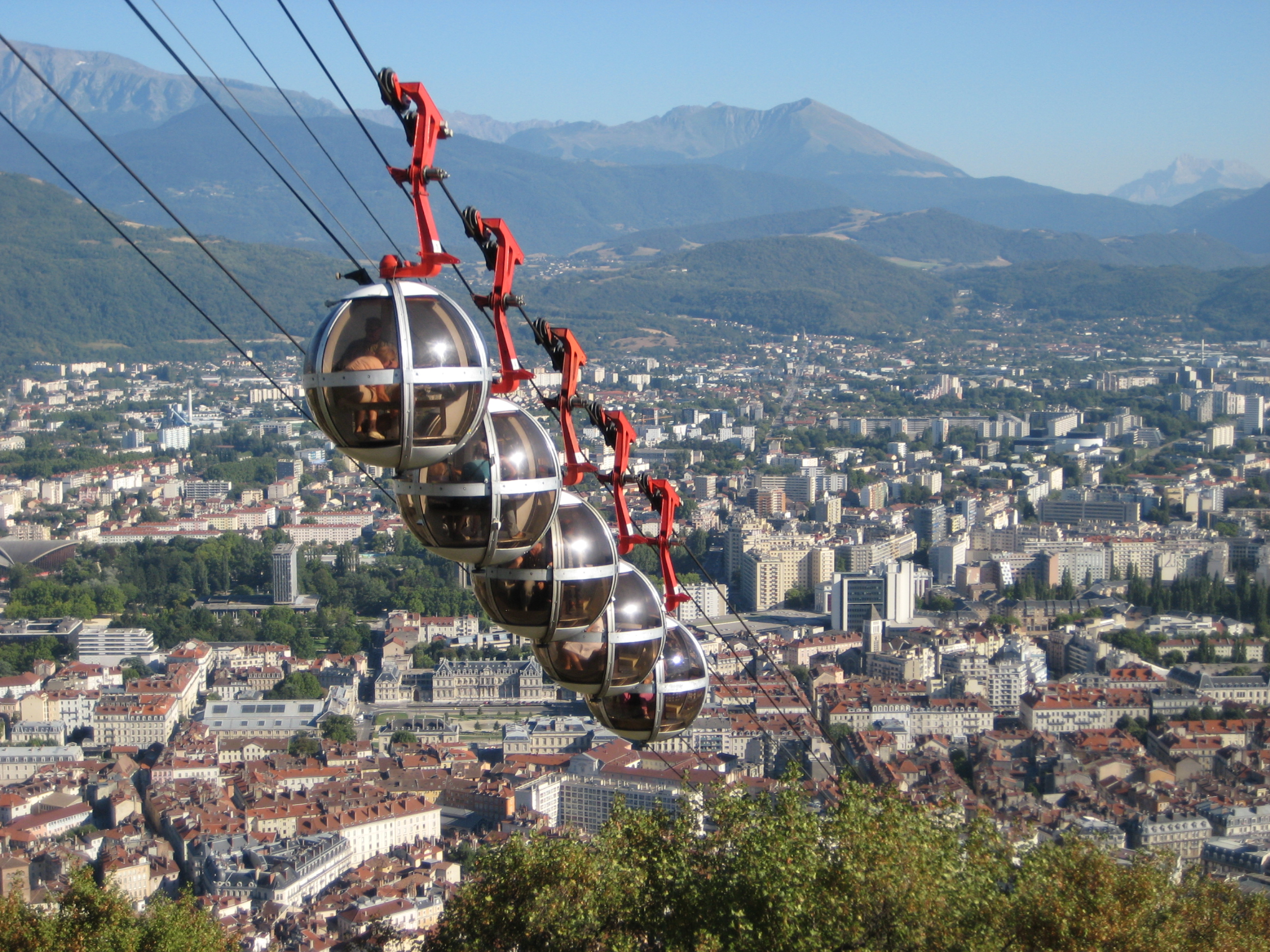 Teleferic of Grenoble